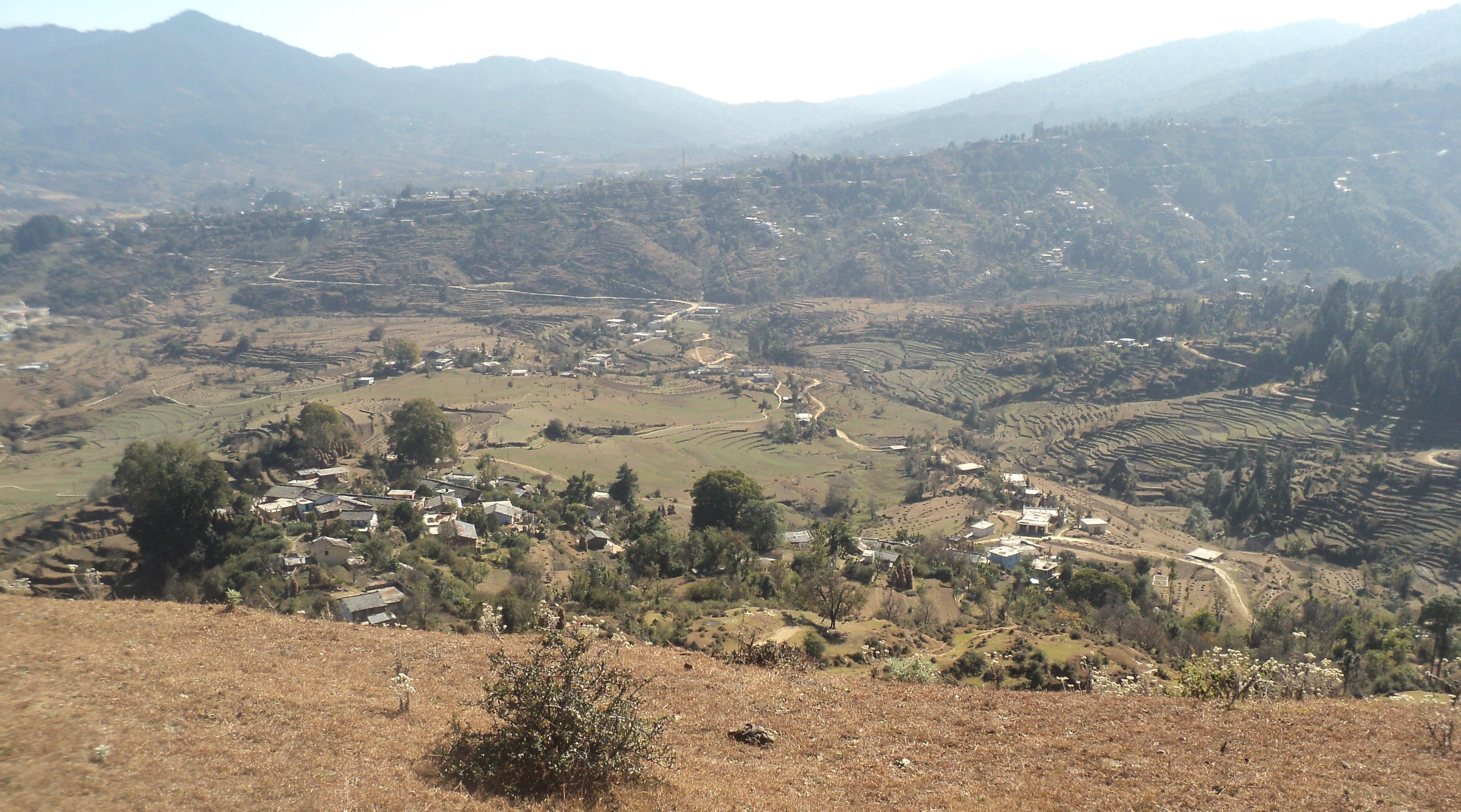 whole village view, from chandal-kot. DHAKNA.